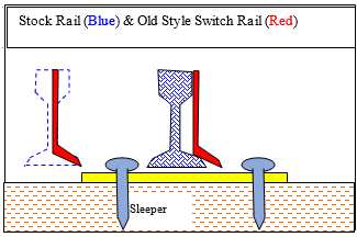 Rail Turnout Switch Blades Old Style uses the same rail cross-section for both Stock rail and Switch blades, the latter being trimmed to size. Stock rail (blue); Switch blade (red); Base plate (yellow); Spikes (purple); Sleeper (brown); Switch rail before trimming (Brown).